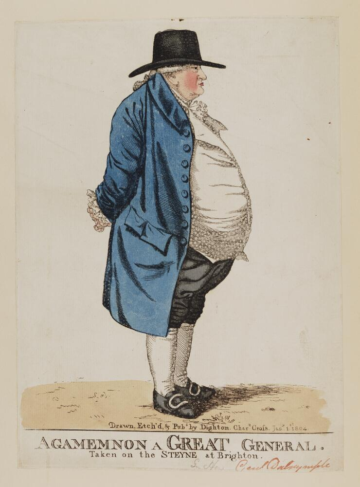 British political cartoon; A later impression; paper watermarked 1819.